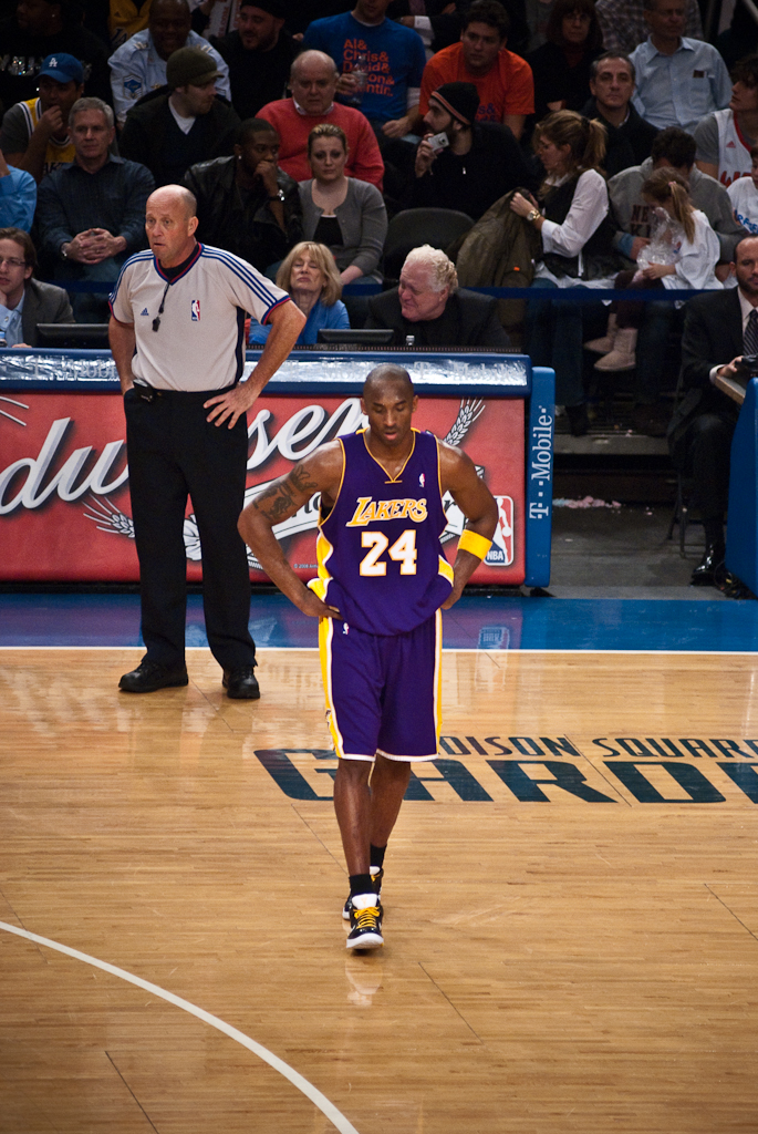 Kobe Bryant 81 point game against the New York Knicks